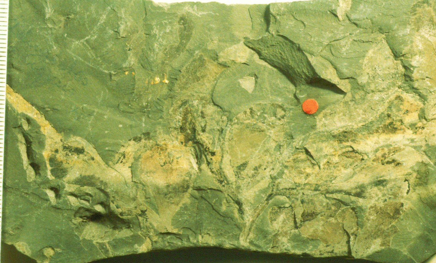 Seed fern foliage of Aneimites acadica from the Early carboniferous Cementstone Group at Newton near Foulden, Scottish Borders